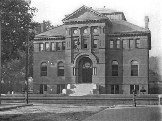 Wallace Library and Art Building (built 1885), Fitchburg, Mass.